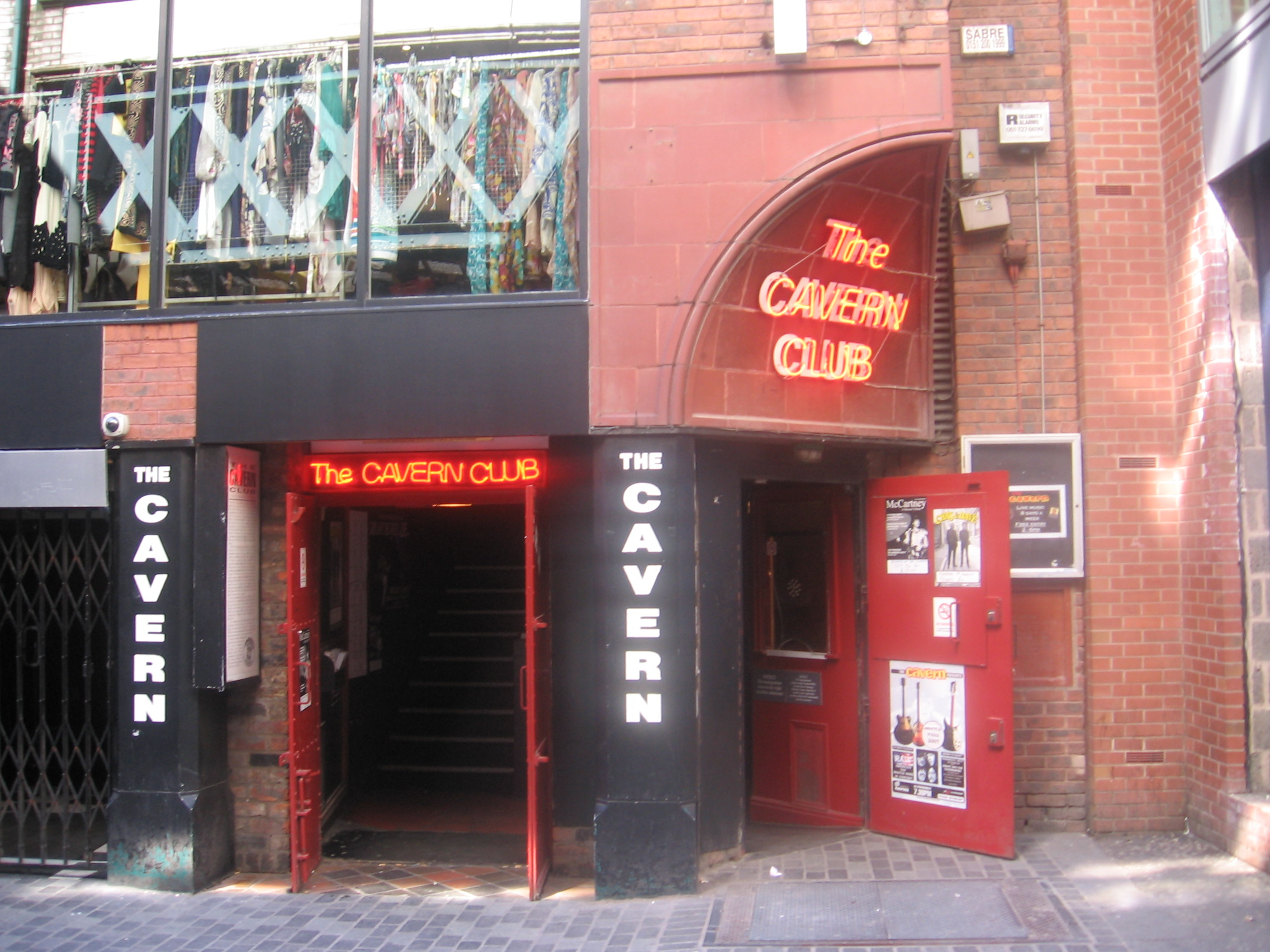 Mathew St. Liverpool